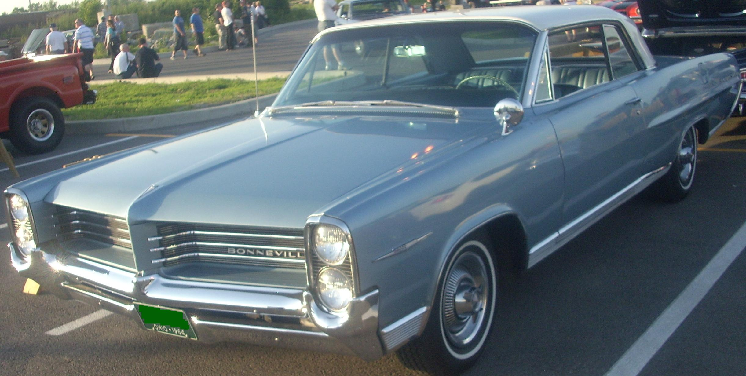 1964 Pontiac Bonneville photographed in Laval, Quebec, Canada at Centropolis Laval.